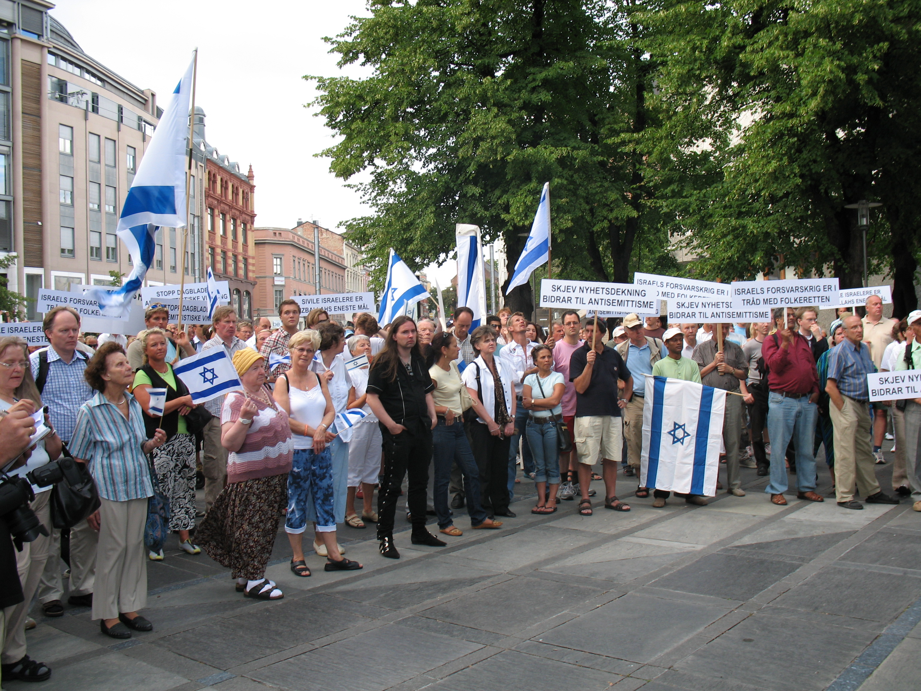 From a pro-Israeli rally in Oslo, Norway, by the organization “Med Israel For Fred”.